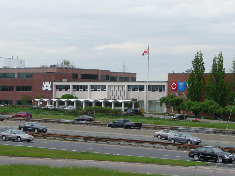 9 Channel Nine Court, Scarborough, Ontario